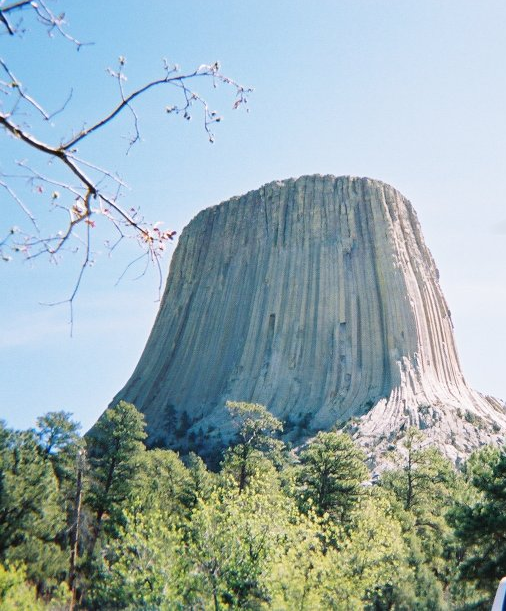 Devils Tower Monument photo taken in May of 2004 by myself